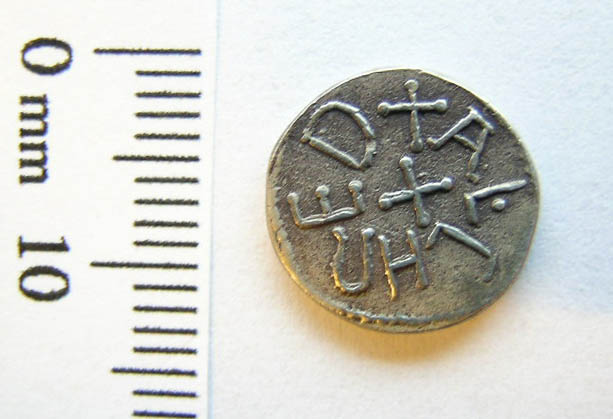 An Early Medieval silver coin: a Northumbrian sceatta of Alchred(AD765-774), small cross type. Reference: North, volume 1, number 179.